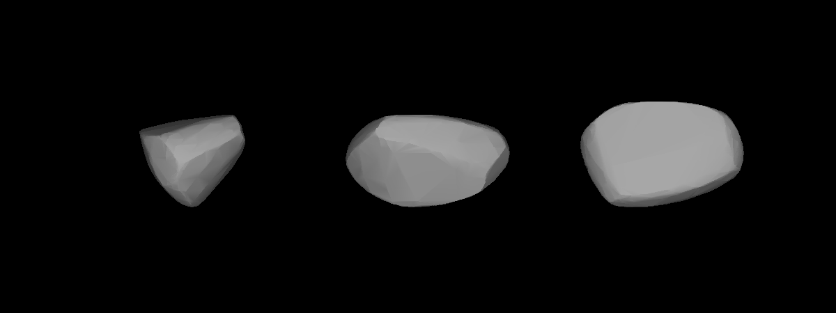 A three-dimensional model of 808 Merxia that was computed using light curve inversion techniques.